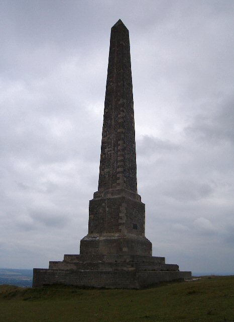 The Lansdowne Monument. A 38 metre stone obelisk erected in 1845 by Third Marquis of Lansdowne, to commemorate an ancestor, Sir William Petty who was a physician and surveyor. The monument was restored by the National Trust in 1990.